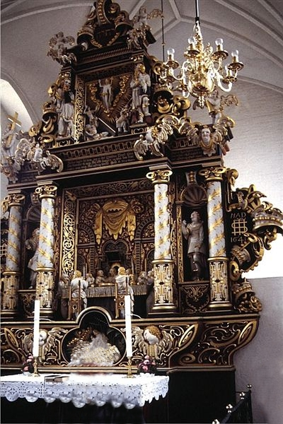 Maribo Cathedral. Altar from 1641 by Henrik Werner.